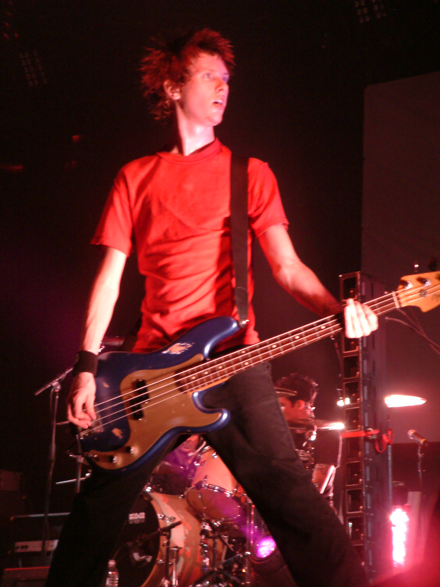 Sum 41 July 7'th 2003 Ottawa Bluesfest